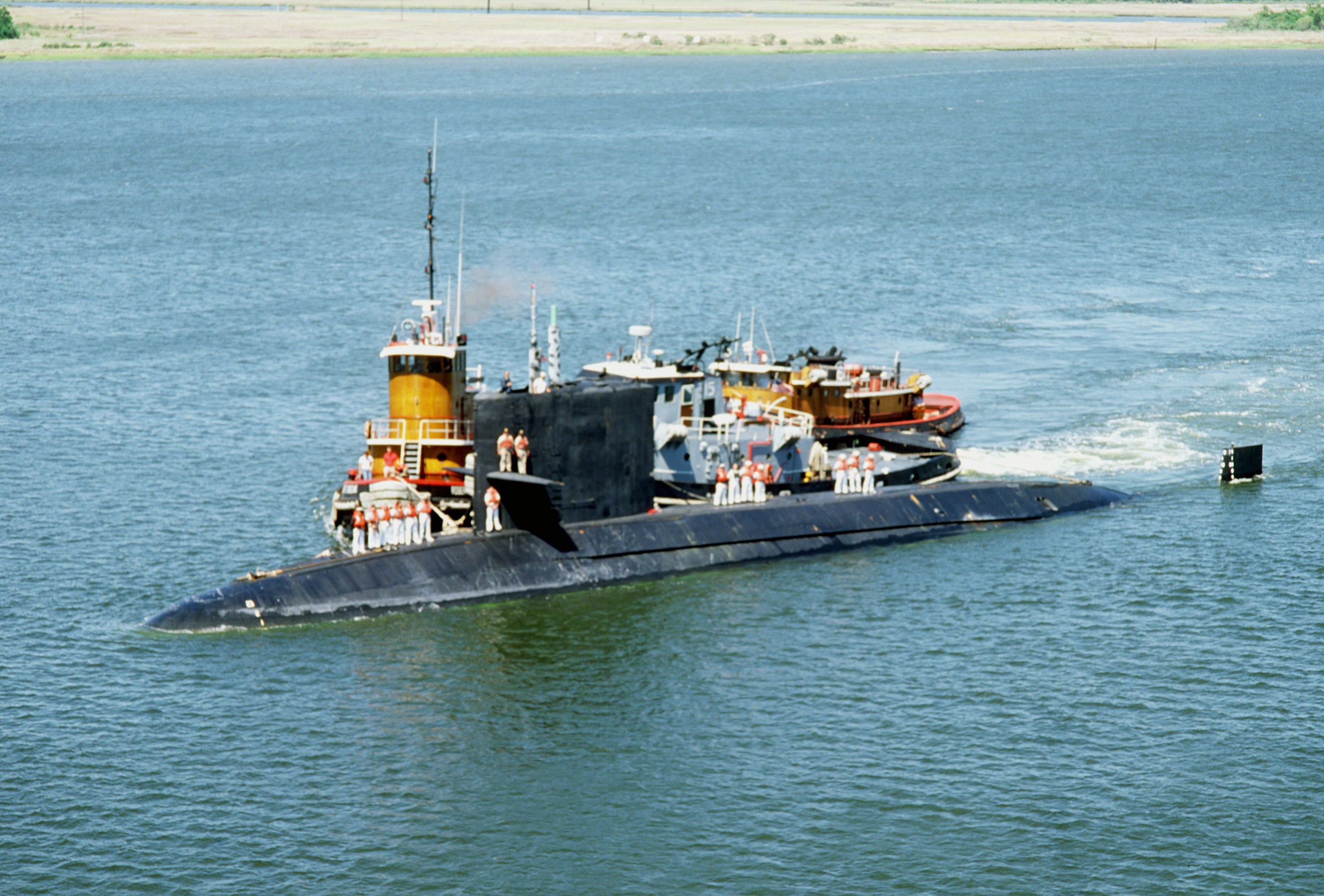 DF-ST-89-02243 A port bow view of the damaged submarine USS BONEFISH (SS-582) being assisted into port by the large harbor tug CHERAW (YTB-802) and other tug boats. The BONEFISH became disabled when it experienced a mid-ocean engine problem. Location: NAVAL STATION/CHARLESTON